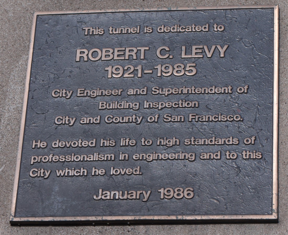 This plaque is on the east portal, north side (westbound tunnel)